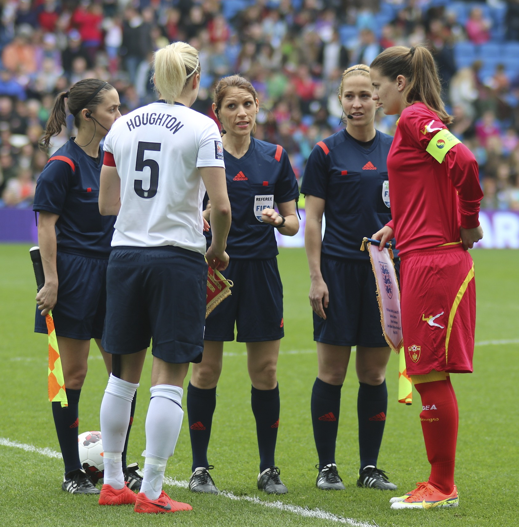 Stephanie Houghton of England, Sladjana Bulatović of Montenegro and Referee Elia Martínez (Spain)